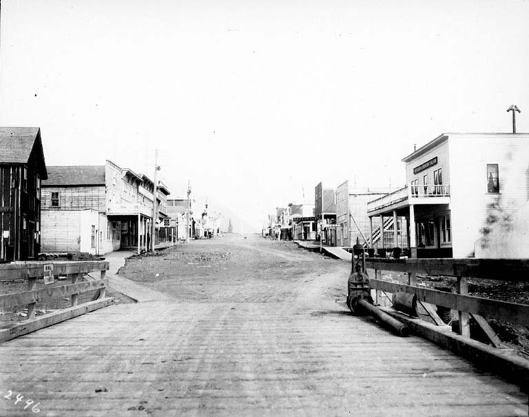 From John Cobb field notebook: Fourth Ave., Seward, Alaska Aug. 16, 1907 Subjects (LCTGM): Streets--Alaska--Seward Subjects (LCSH): Fourth Avenue (Seward, Alaska); Seward (Alaska)